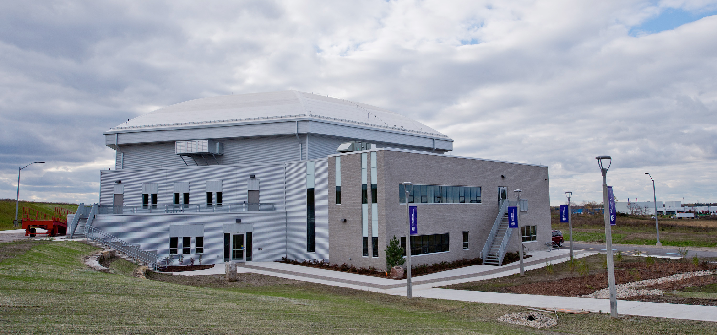 This is the official facility of The Wind Engineering, Energy and Environment (WindEEE)